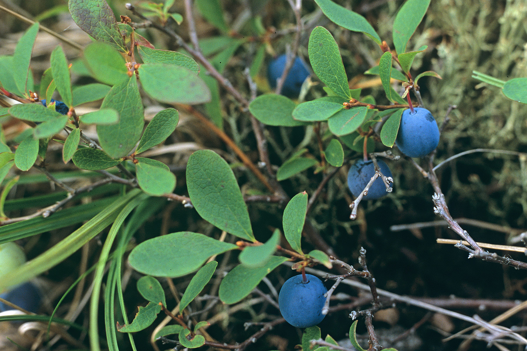 Vaccinium uliginosum L. - with fruits. Russia, Karelia